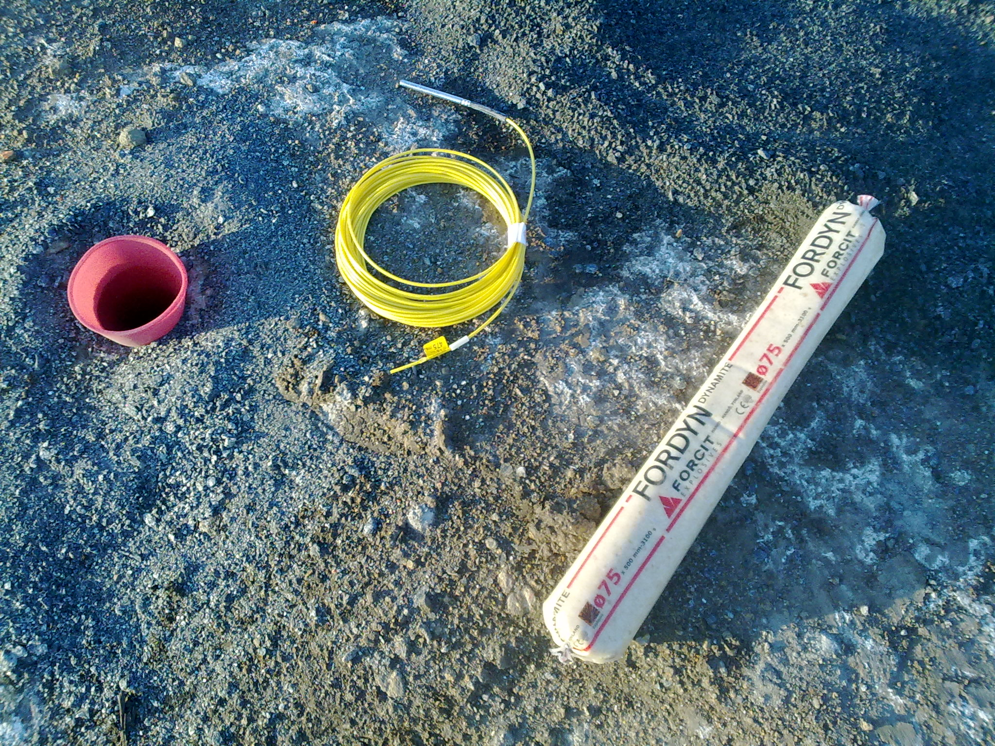 Fordyn dynamite, 75x500mm 3100g with nonel detonator in field.